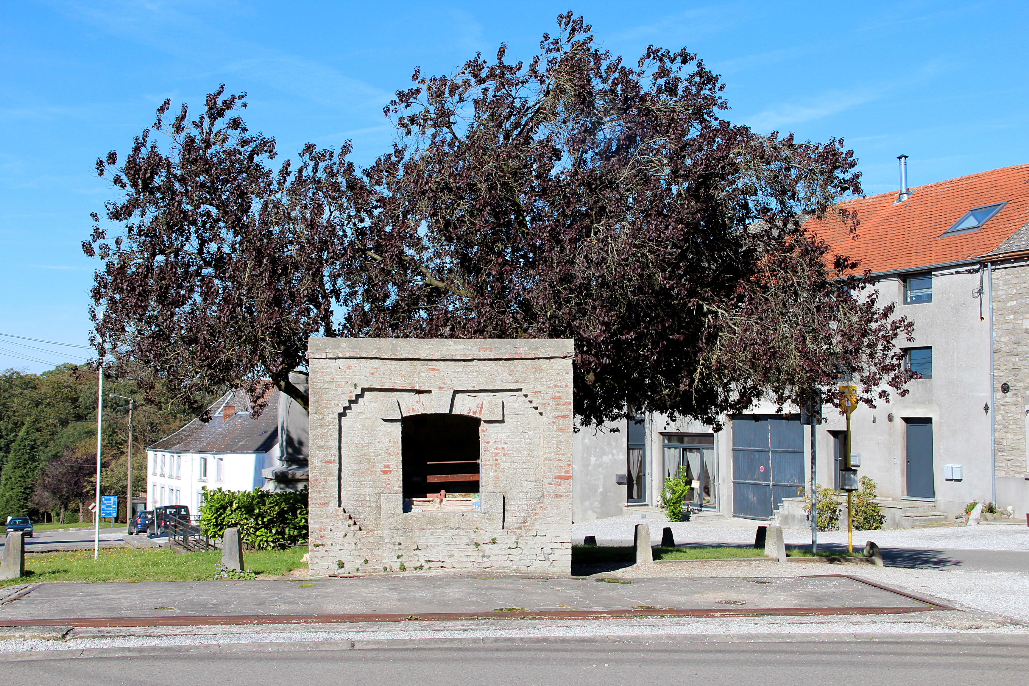 Rosée (Belgium), Public weigh bridge and her cabin shelter.